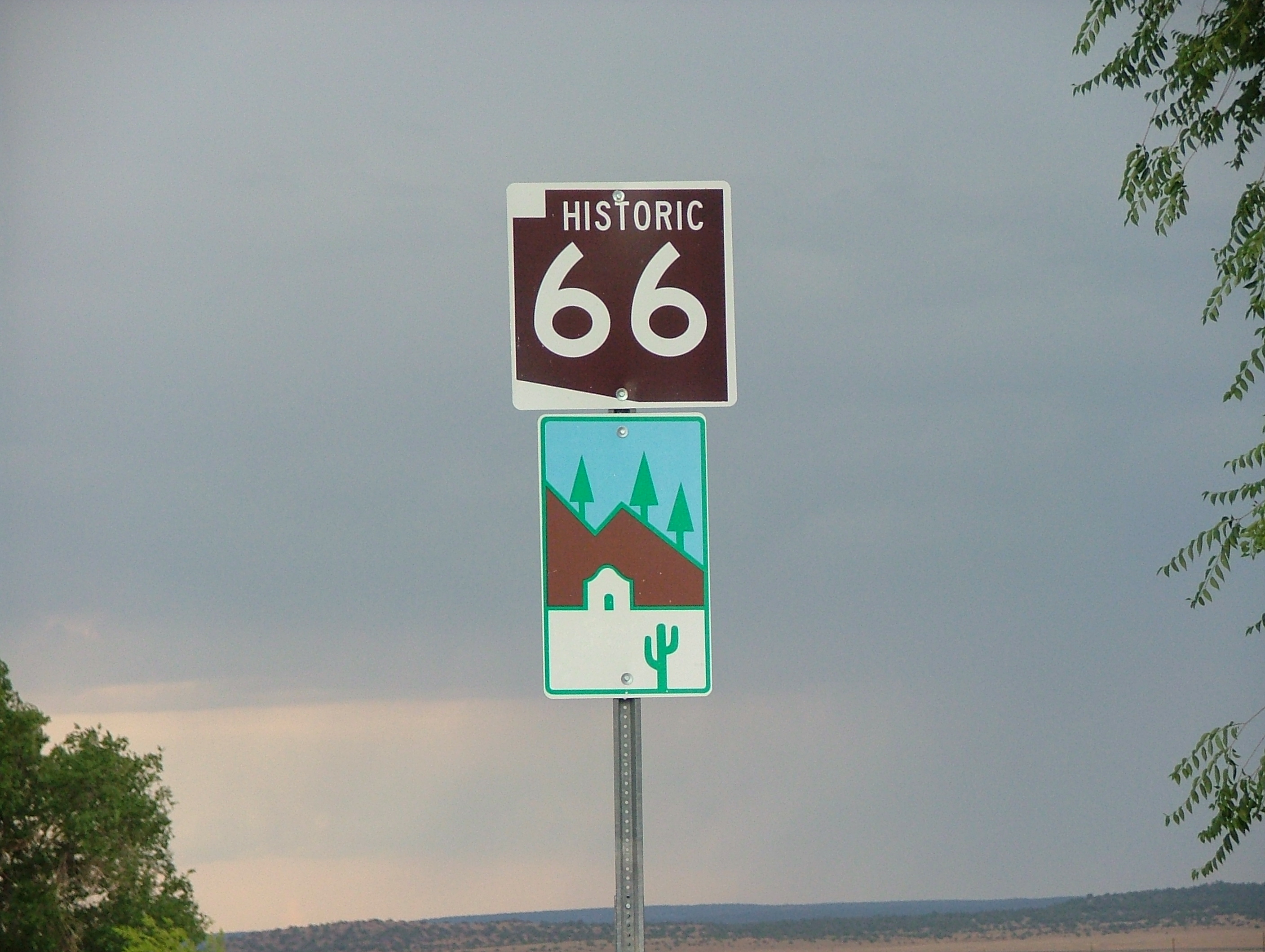 Historic Route 66 Sign